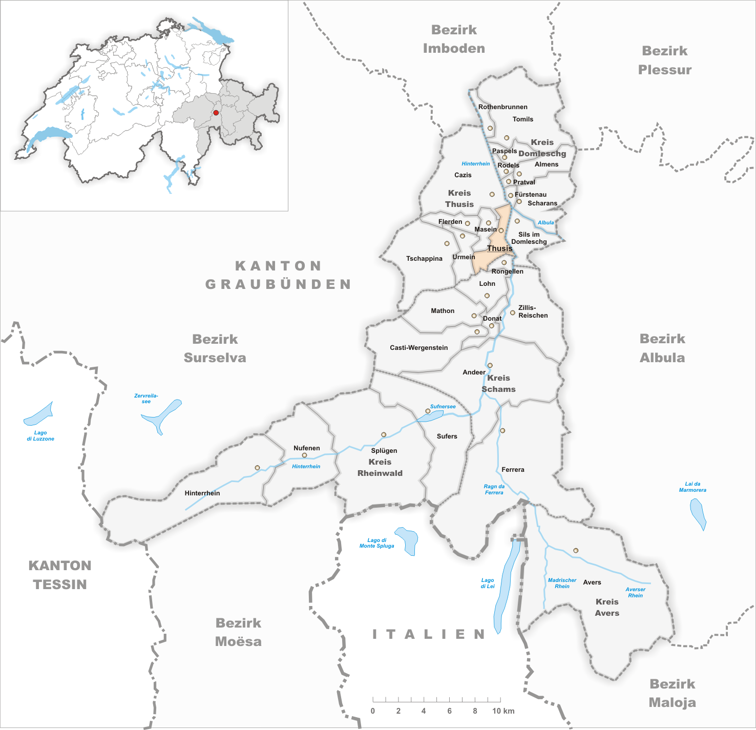 Municipality Thusis